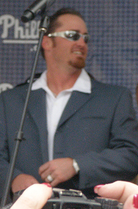 This is a cropped and enhanced version of the photo found on Flickr